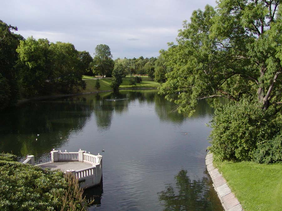 Photo of water in Frognerpark Oslo